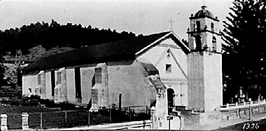 San Buenaventura Mission, circa 1900. Photograph by William Amos Haines